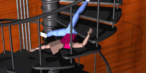 An ragdoll physics example. This image was created by John Nagle of Animats in 1997, using Softimage|3D and the Animats "Falling Bodies" physics engine. It is believed to be the first public appearance of that cliche of game physics, the ragdoll falling downstairs.